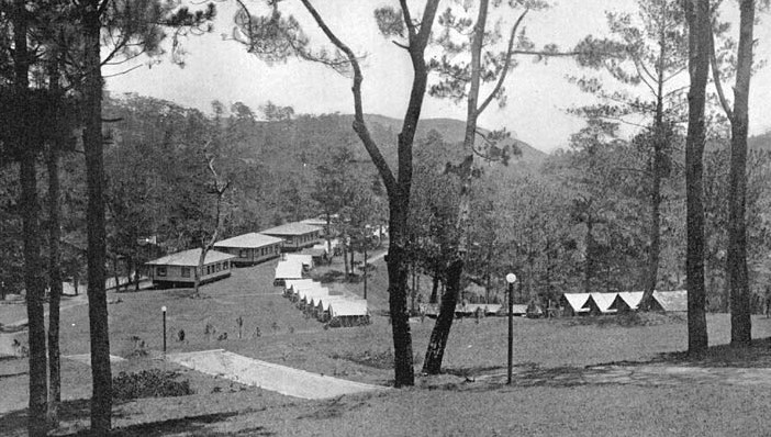 The tents and dormitories of Teachers Camp in Baguio City, 1909, the summer retreat for American educators